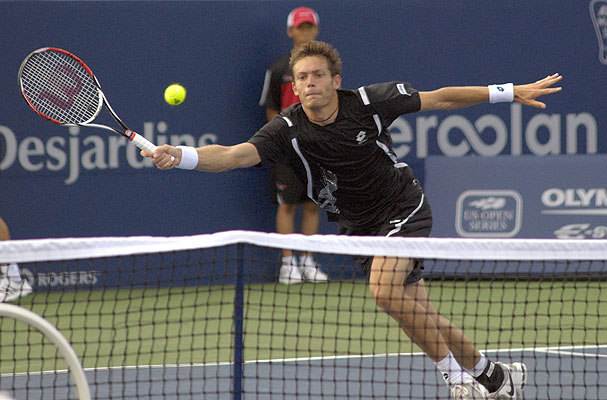 Nicolas Mahut playing at the 2008 Rogers Cup